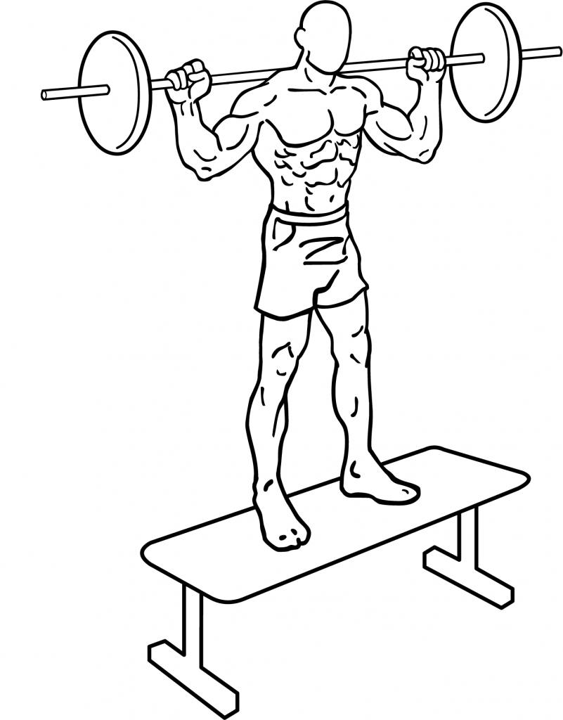 an exercise of hip and thigh